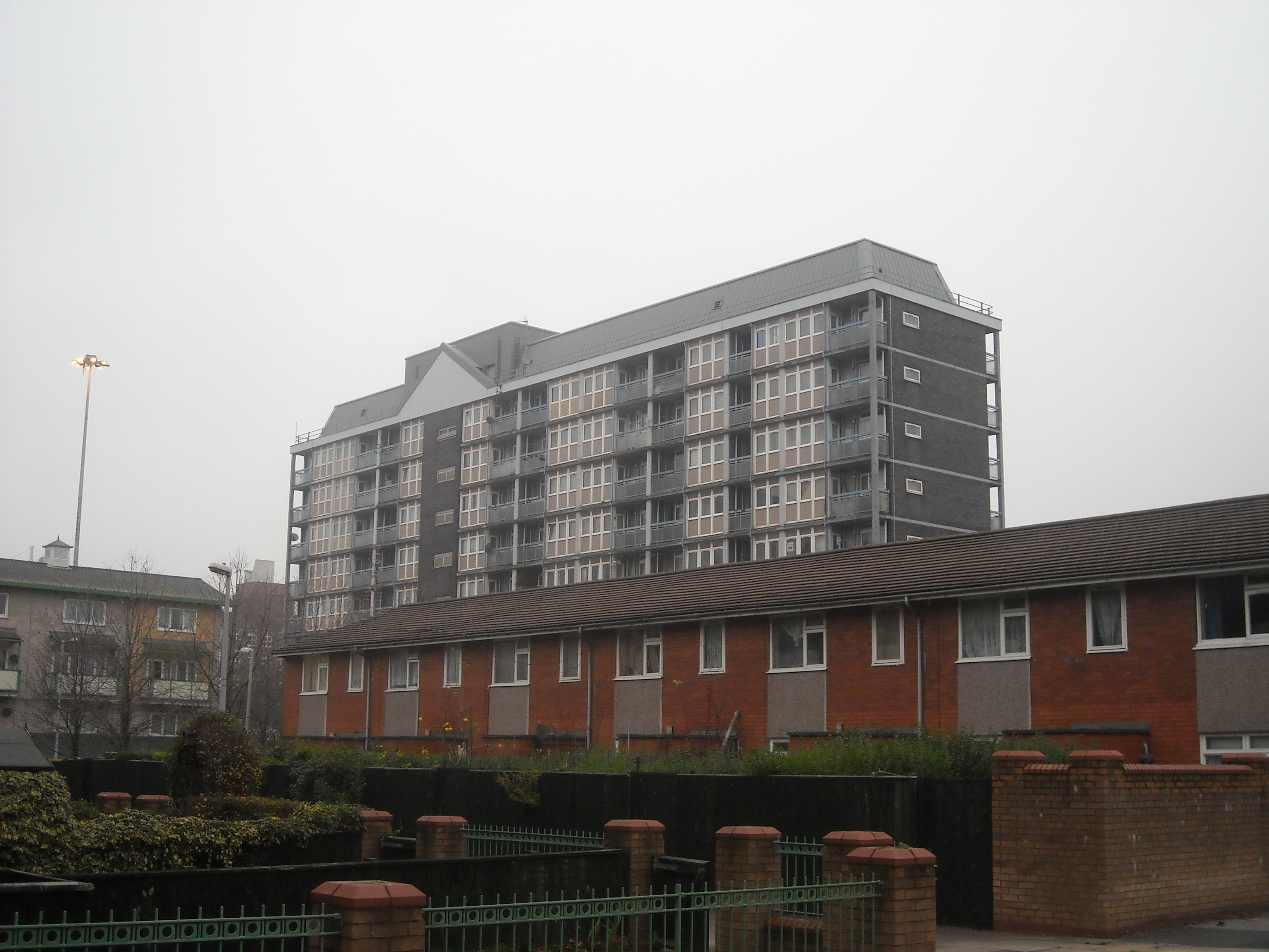 A view of Chortlton-on-Medlock, in Manchester, England.